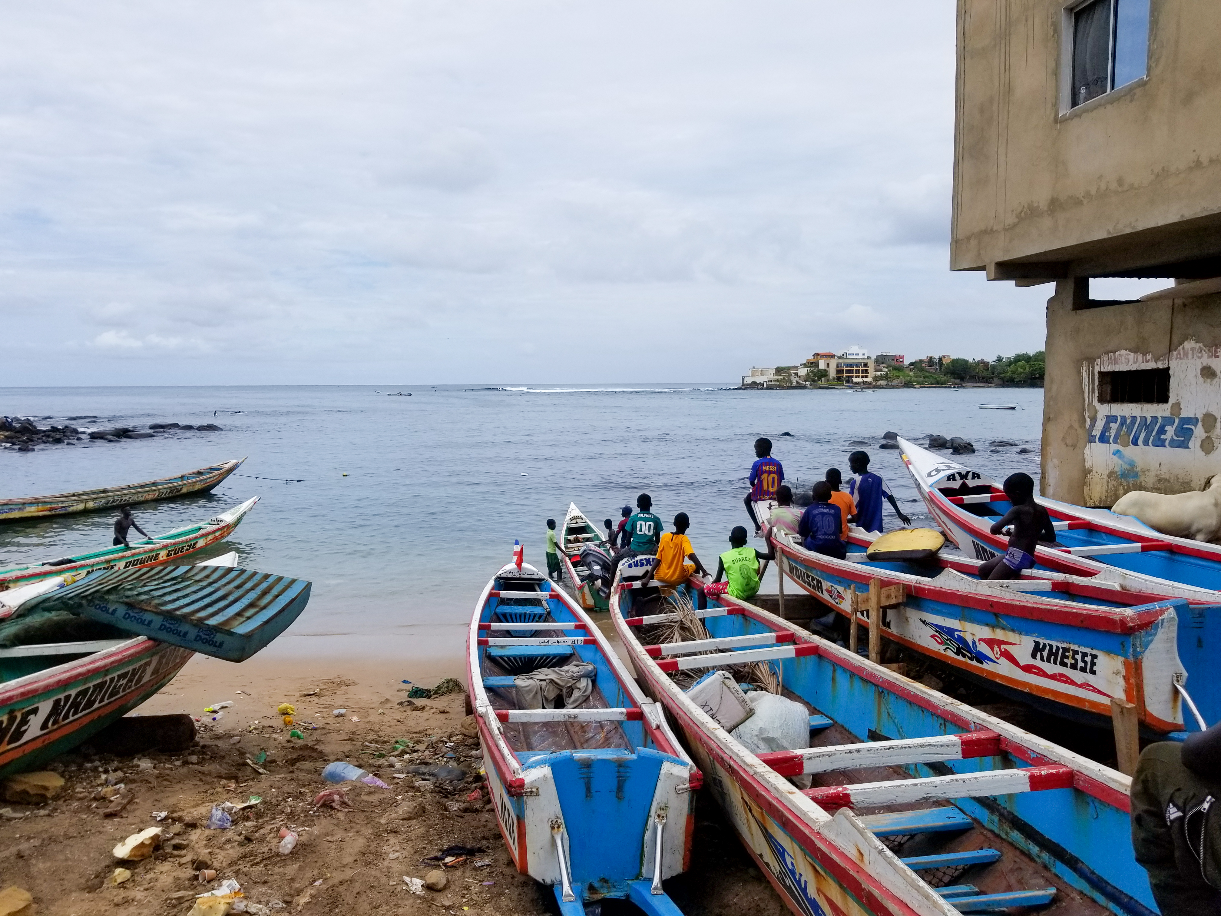 What are they looking? I am not sure, but they were very consentrated as if they were waiting for somebody This is an image with the theme "Africa on the Move or Transport" from: Senegal